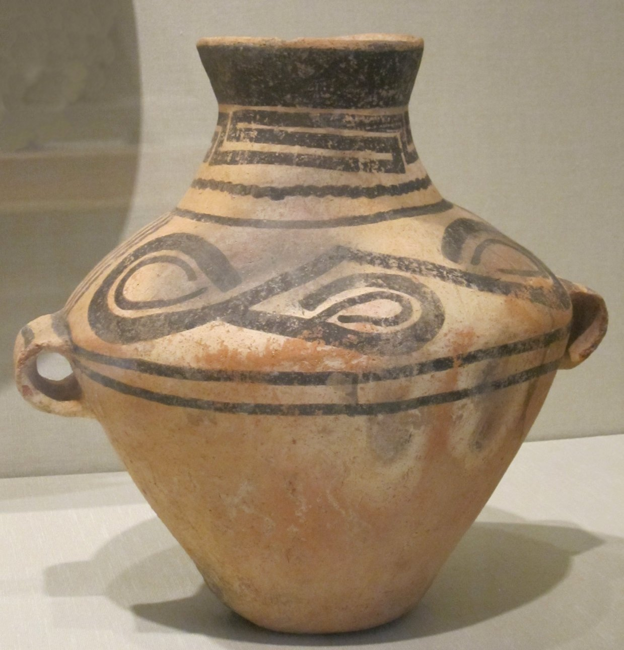 Chinese jarwith two lug handles, Neolithic period, c. 1,000 BCE, painted earthenware, Honolulu Academy of Arts